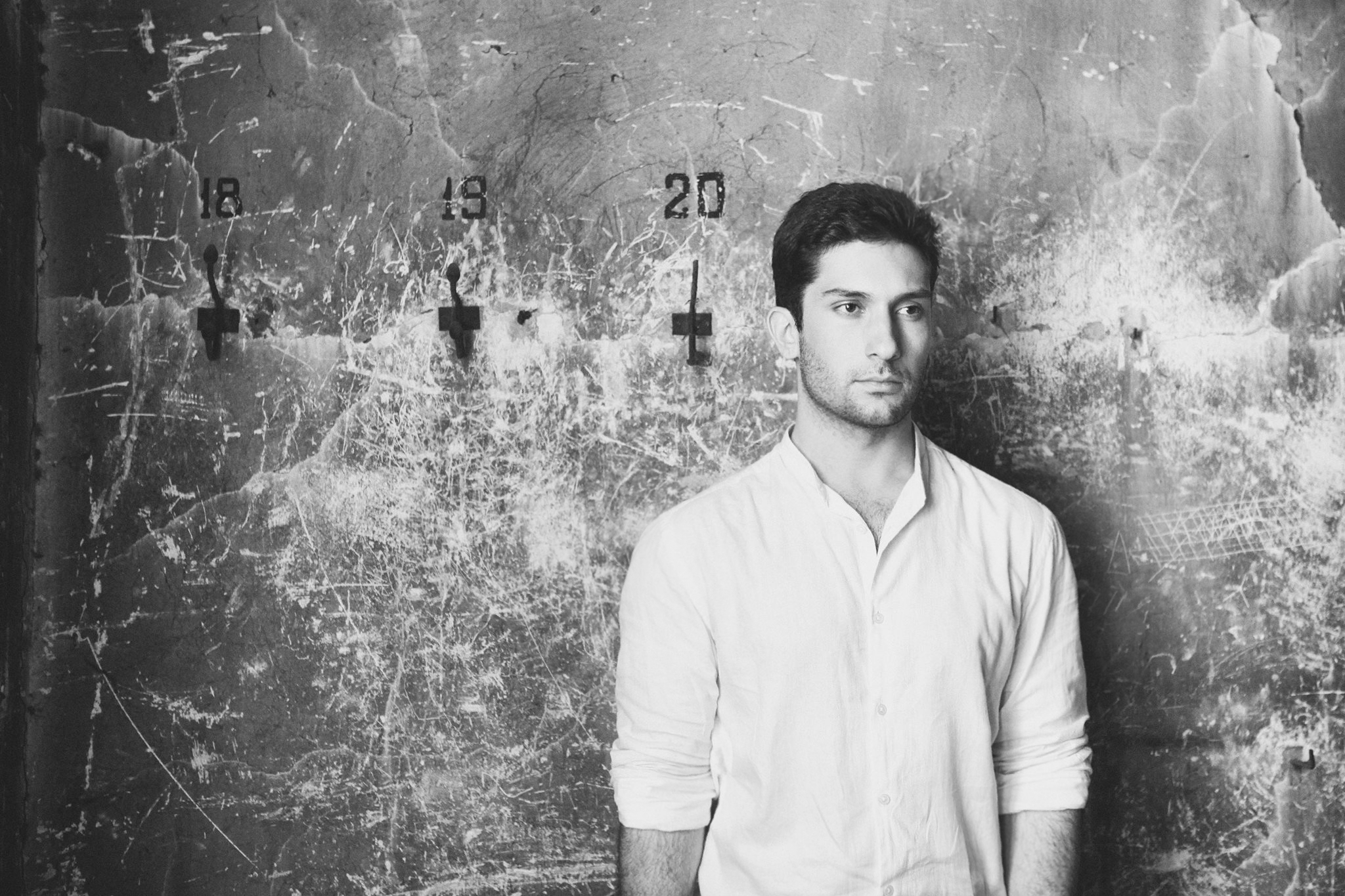 Levan Songulashvili portrait Giorgi Dadiani